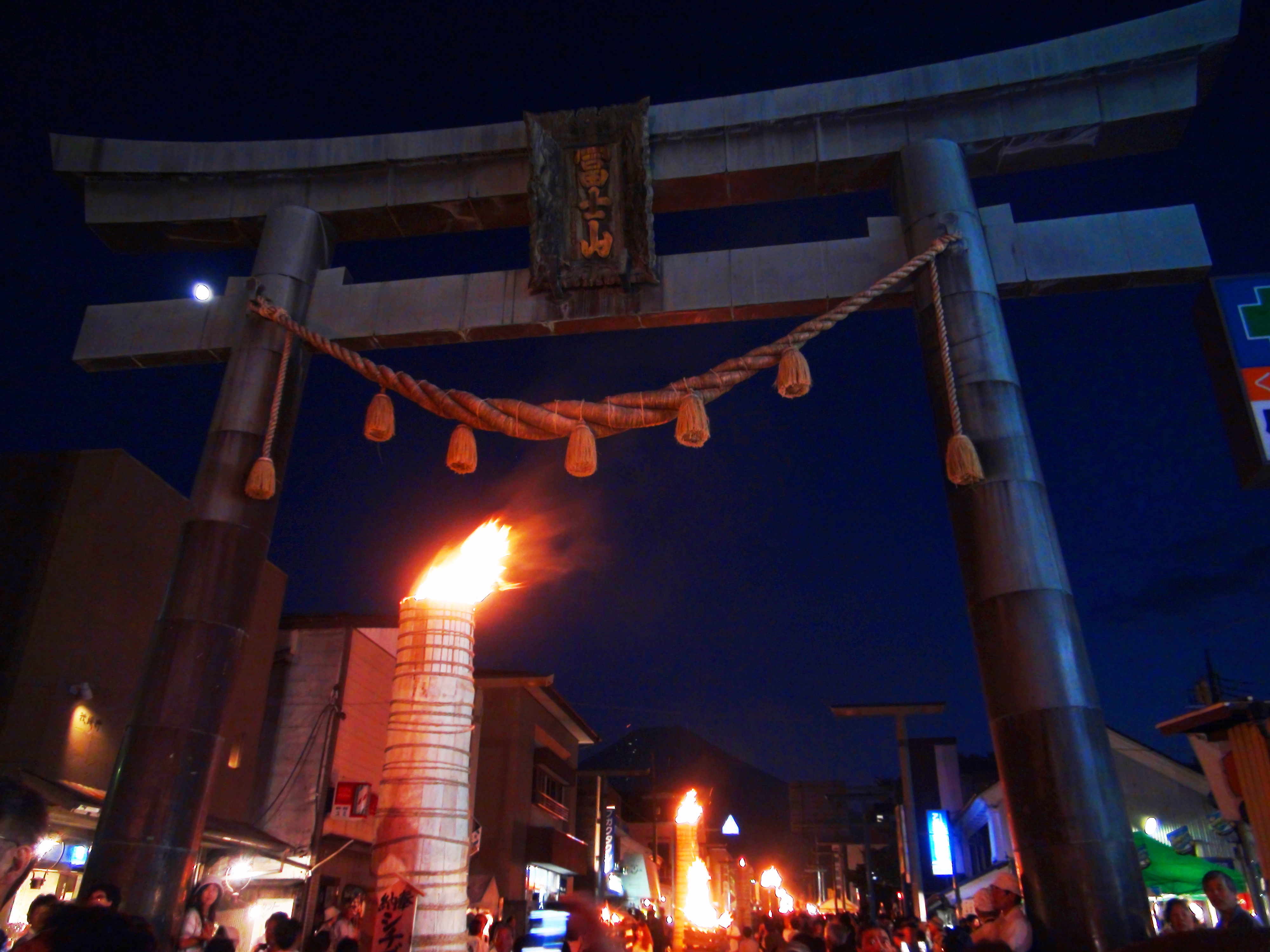 Yoshida Fire Festival, Mt.Fuji and Kanadorii